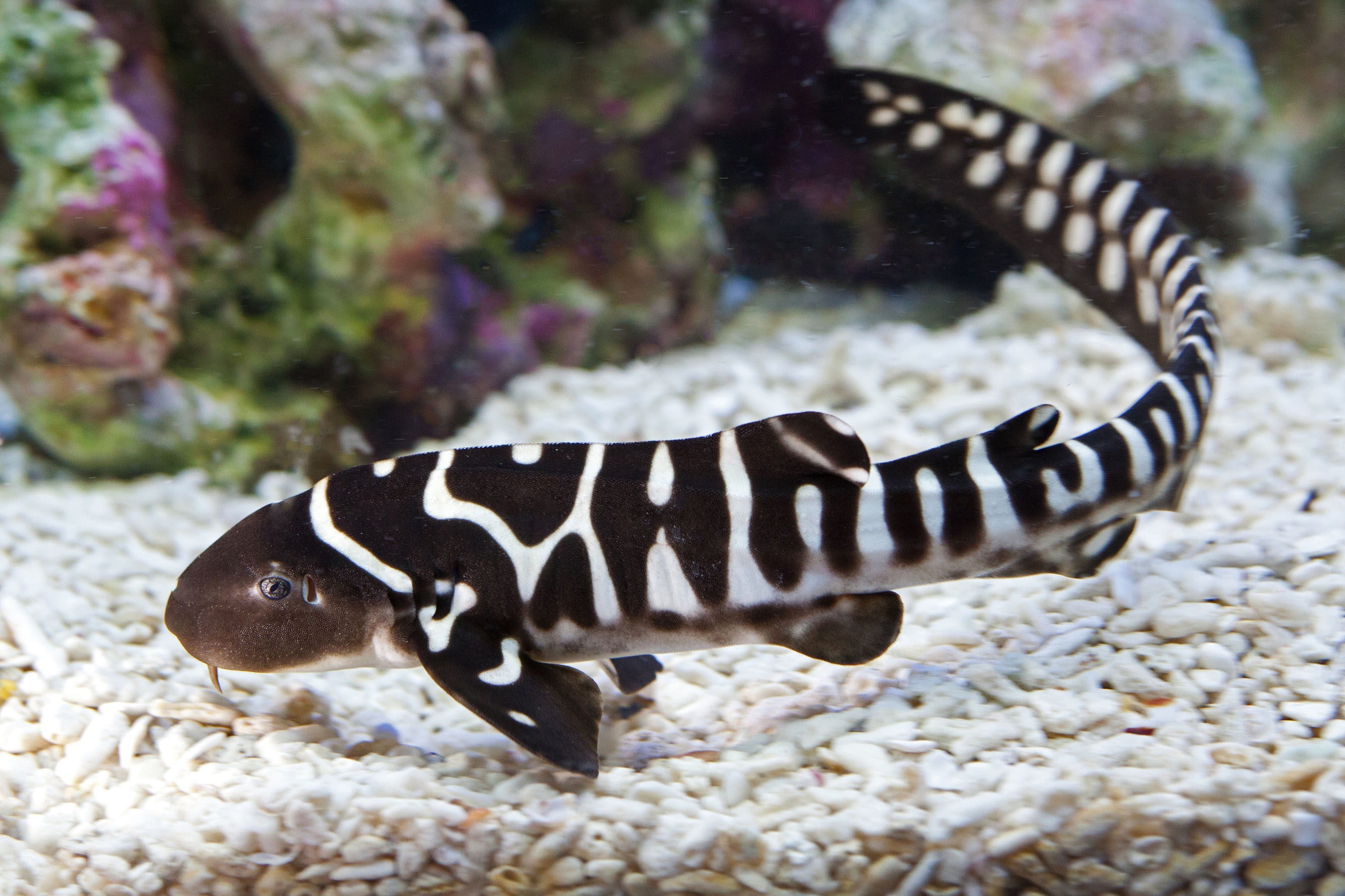 Zebra shark baby is born at The National SEA LIFE Centre and filmed for an exclusive documentary with the BBC.